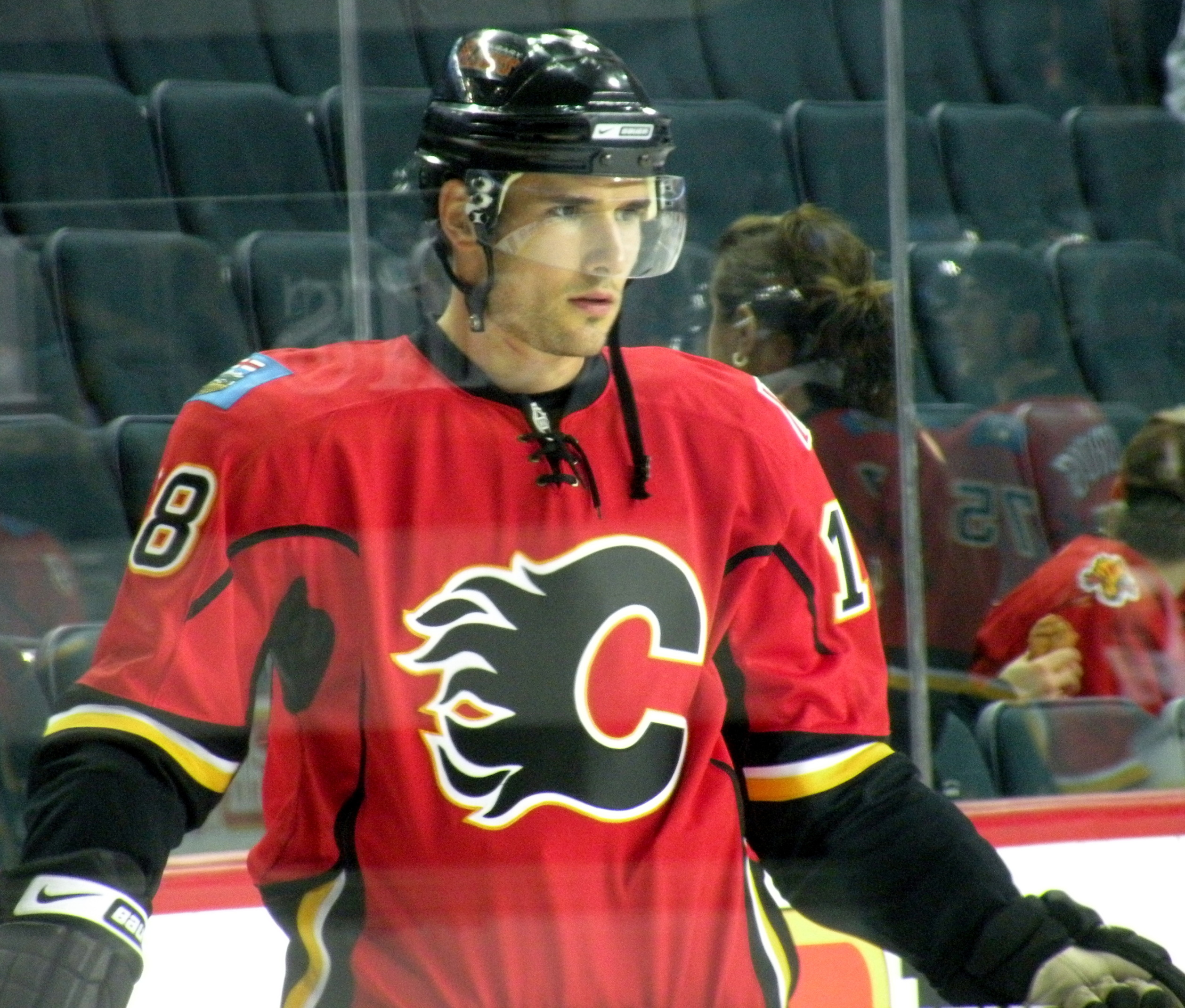 Calgary Flames player Matthew Lombardi during warm-up prior to a pre-season game against the Phoenix Coyotes